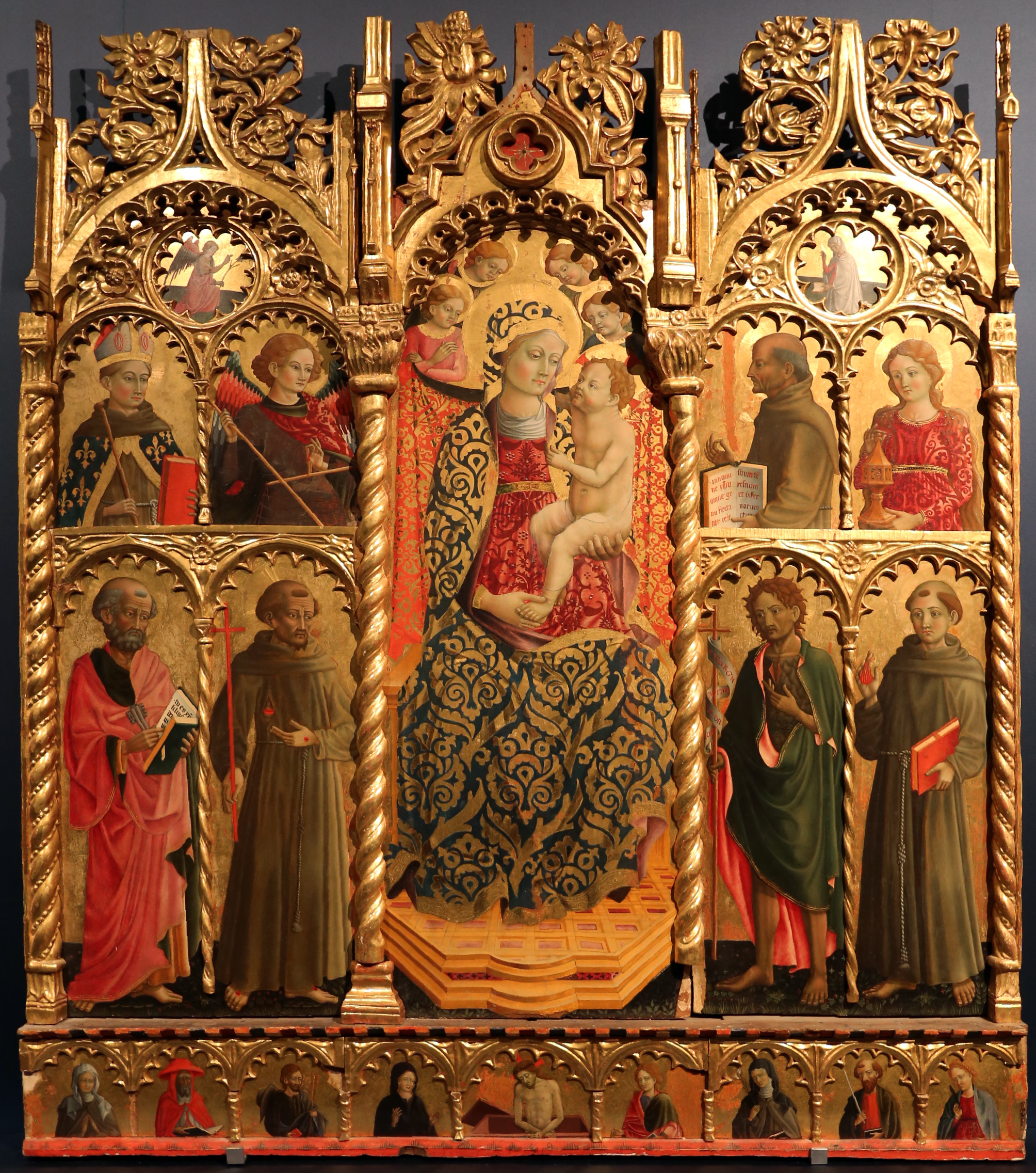 Visso Polyptych by Paolo da Visso